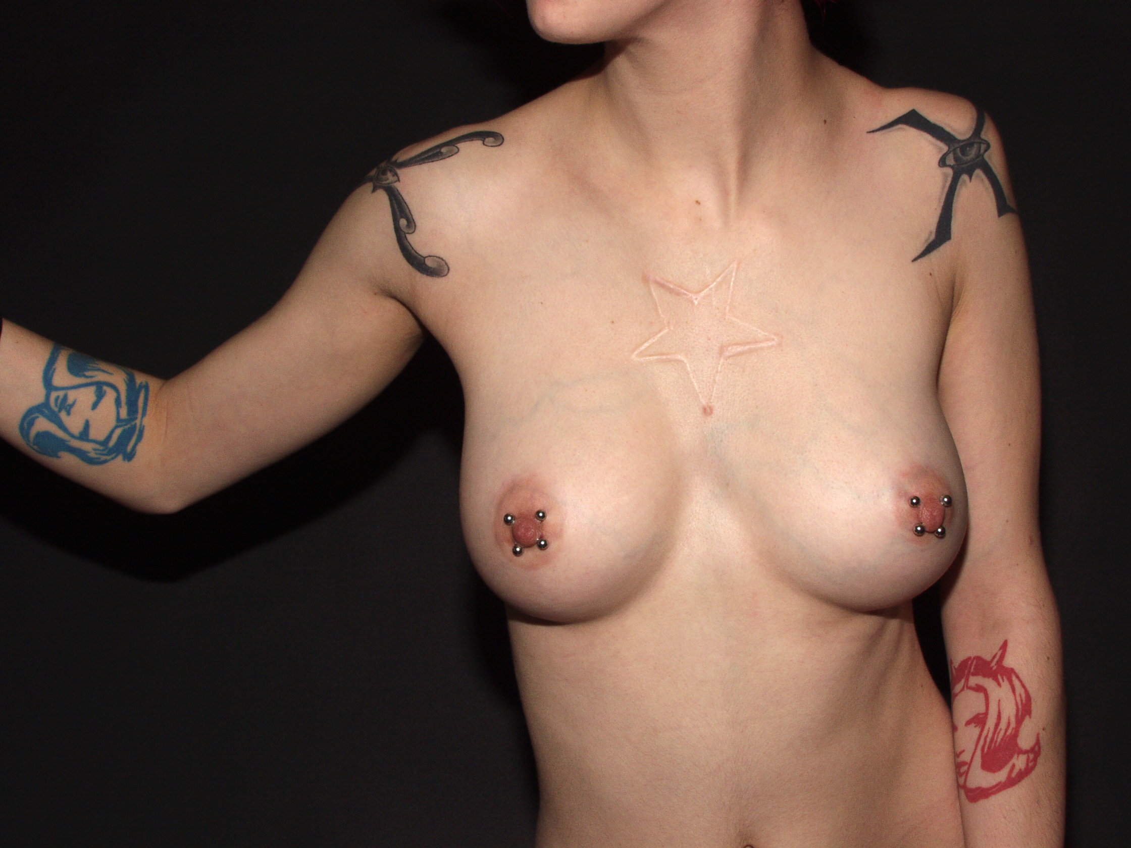 Bella Vendetta has 18 body piercings including double lip, labret, nosering and side stud, tongue, ears, the double nipples (seen here), double clithood, and two vaginal lips. Ten tattoos include shoulders, forearms, hands, back, feet. Three scarification keloids include chest (seen here), back, foot.